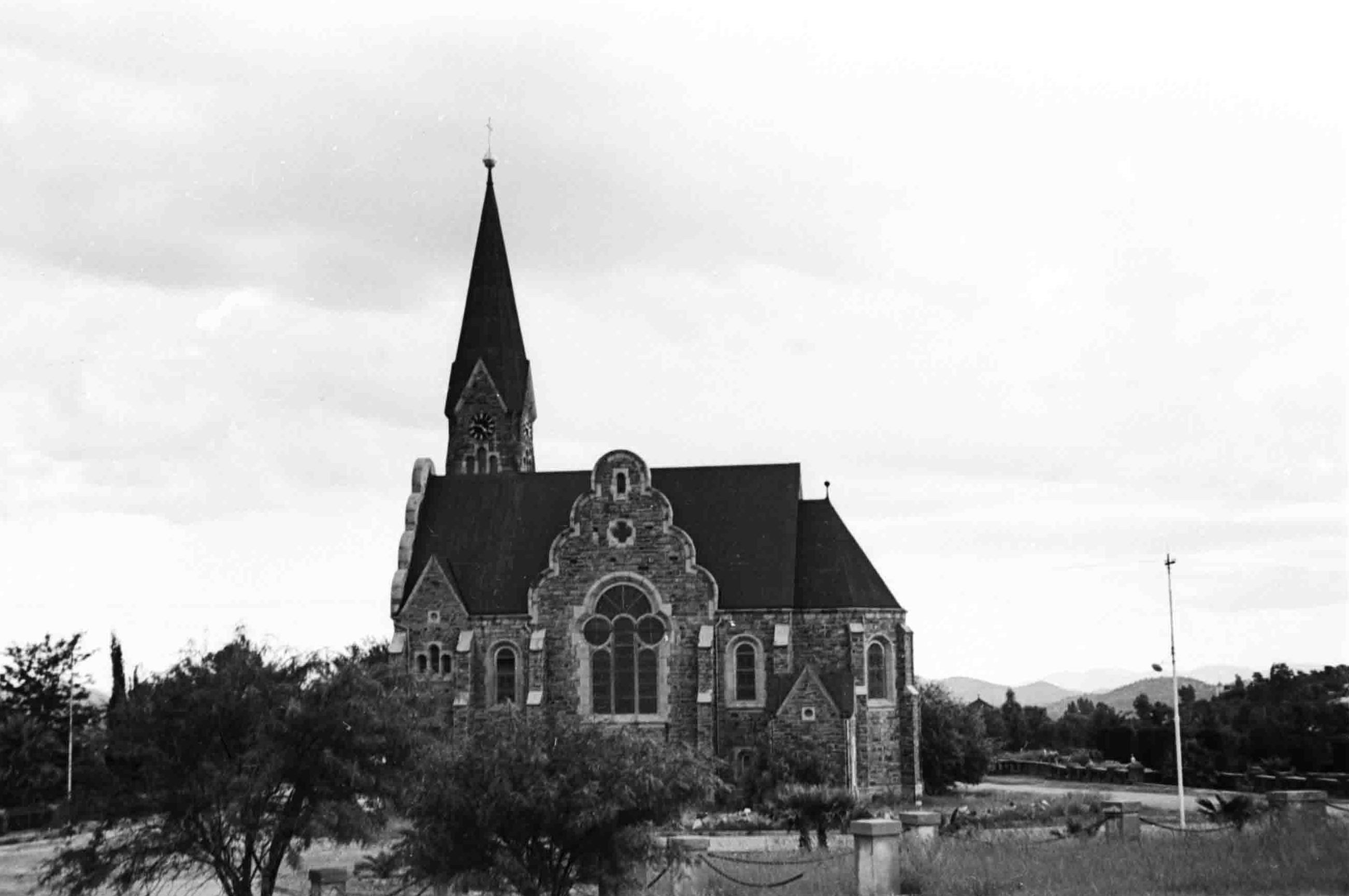 Lutheran Christuskirche in Windhoek, Namibia; build in 1910